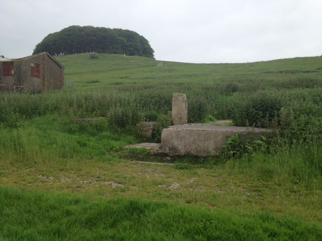 Photo showing Morgan's Hill, Devizes, Wiltshire, UK, showing detail of concrete bases of wireless masts and a brick building to house equipment.